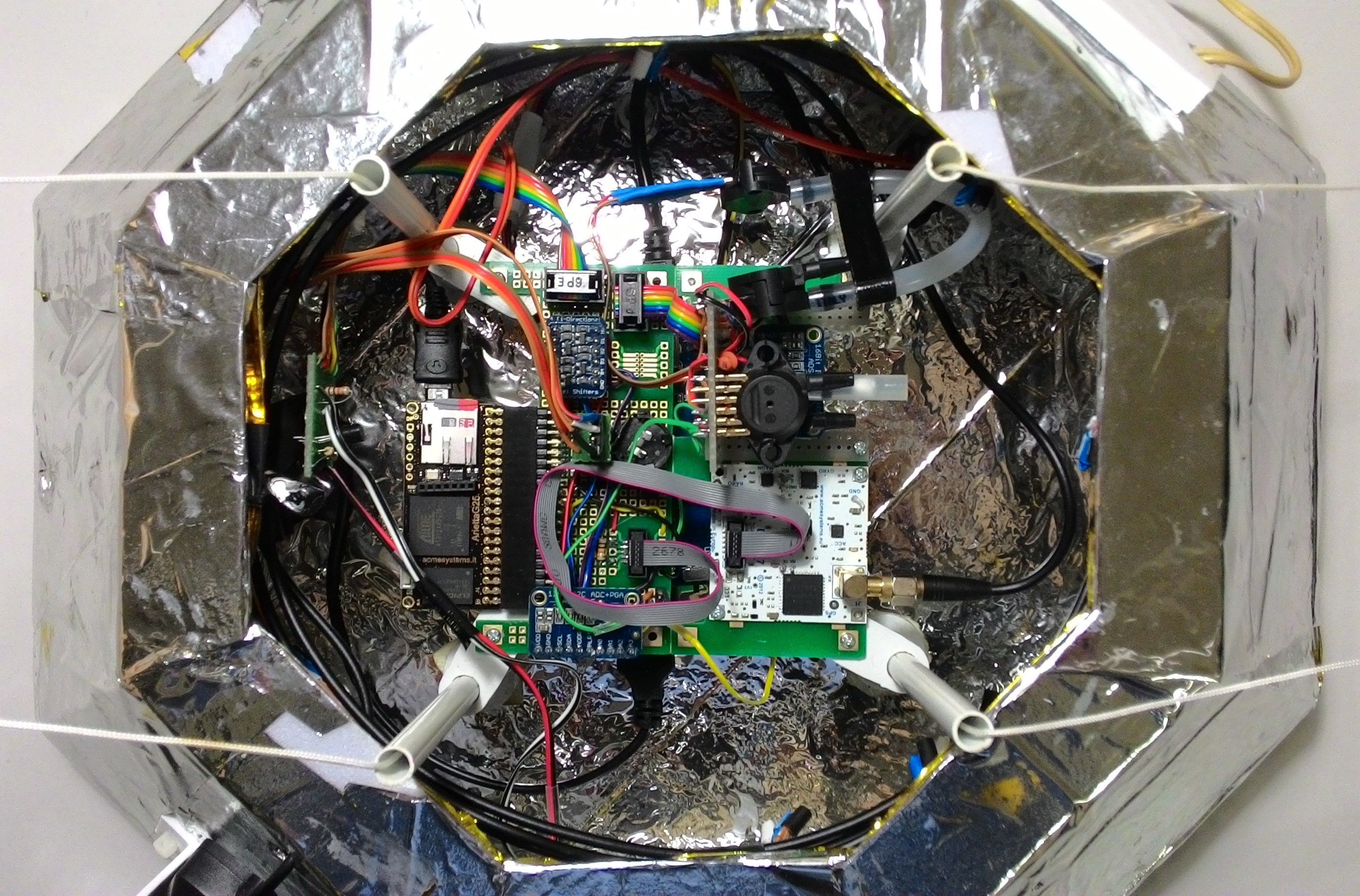 Payload - ATLAS0 mission. Embedded computer Arietta G25, custom pcb and different sensors (temperature, pressure, passive radiation detector). Used for equipment testing.